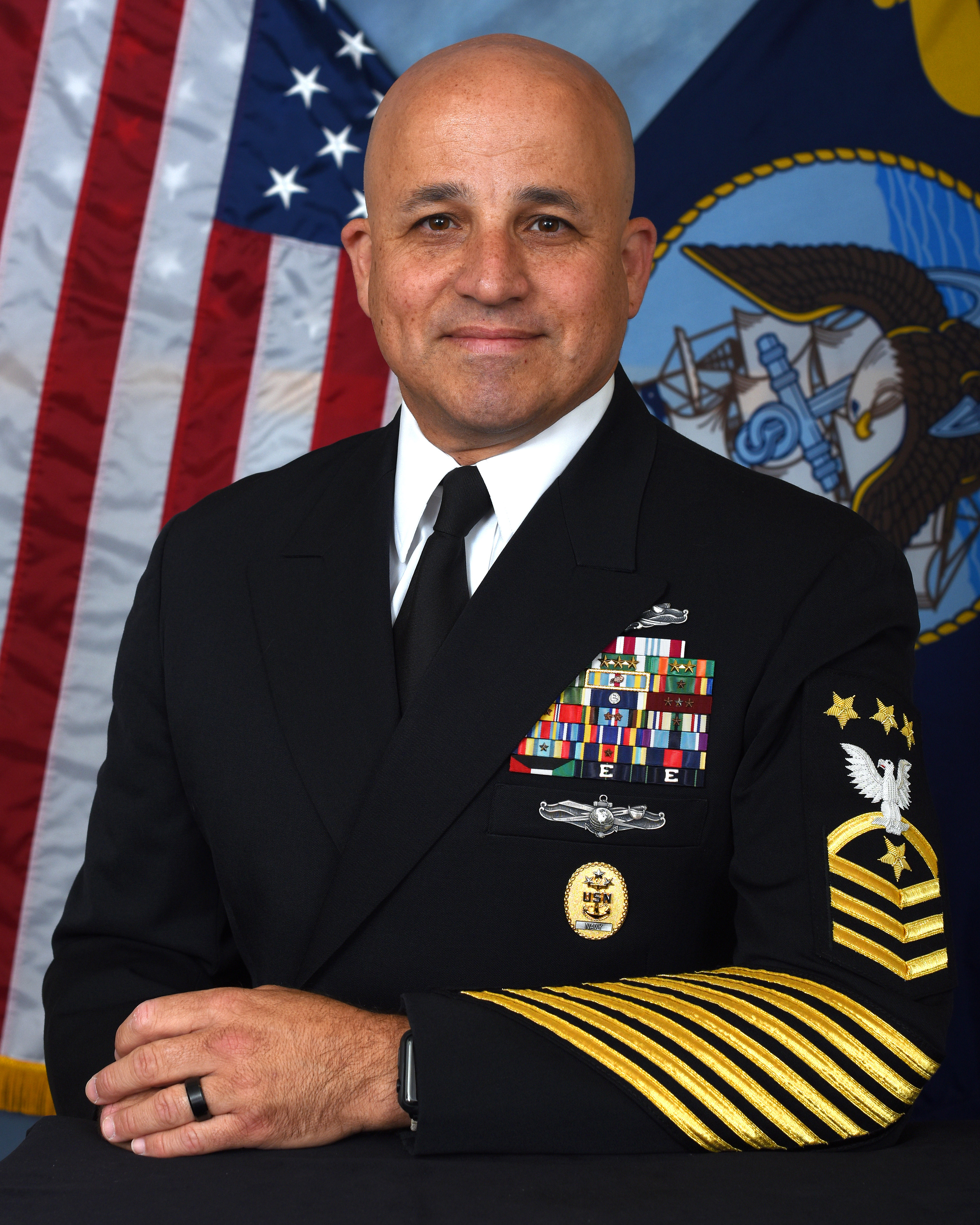 MCPON Russell L Smith, USN15th Master Chief Petty Officer of the Navy